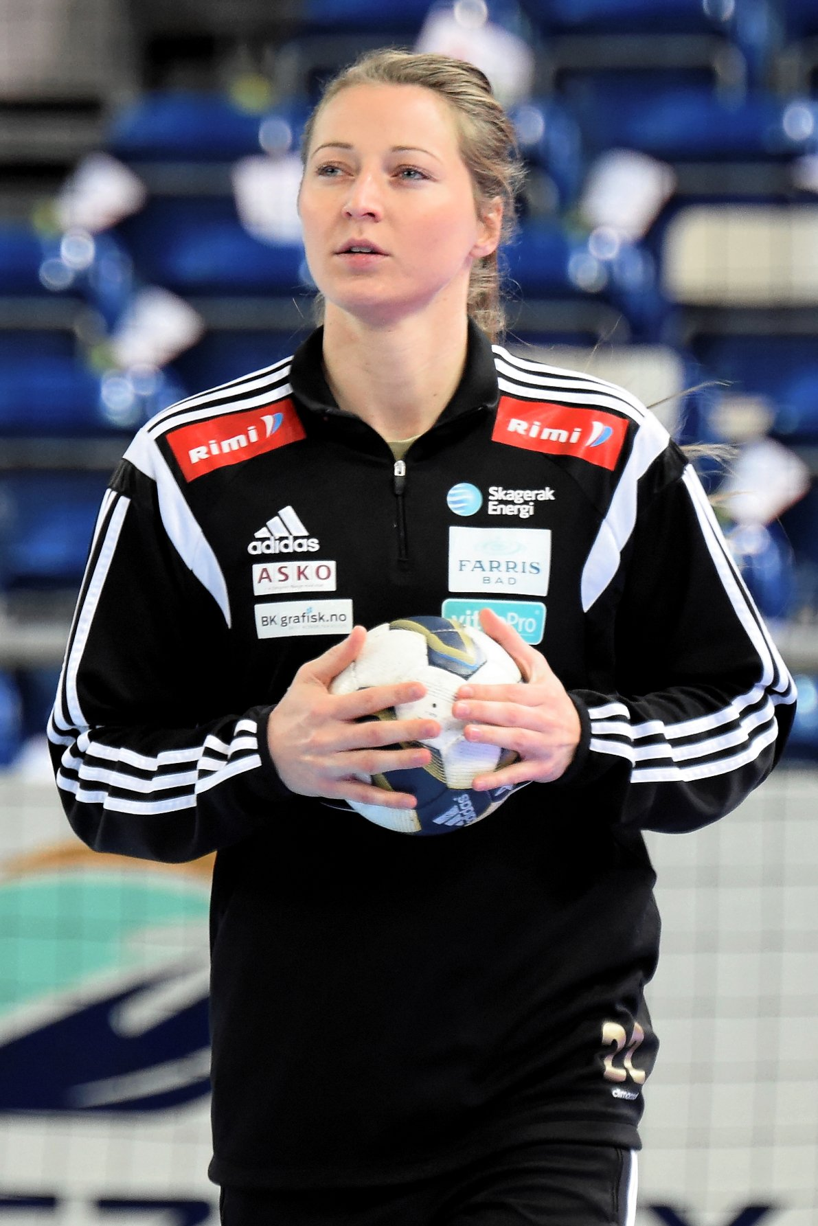 Sanna Charlotte Solberg - EHF Champion's League, Metz Handball / Larvik HK - 15 november 2014.